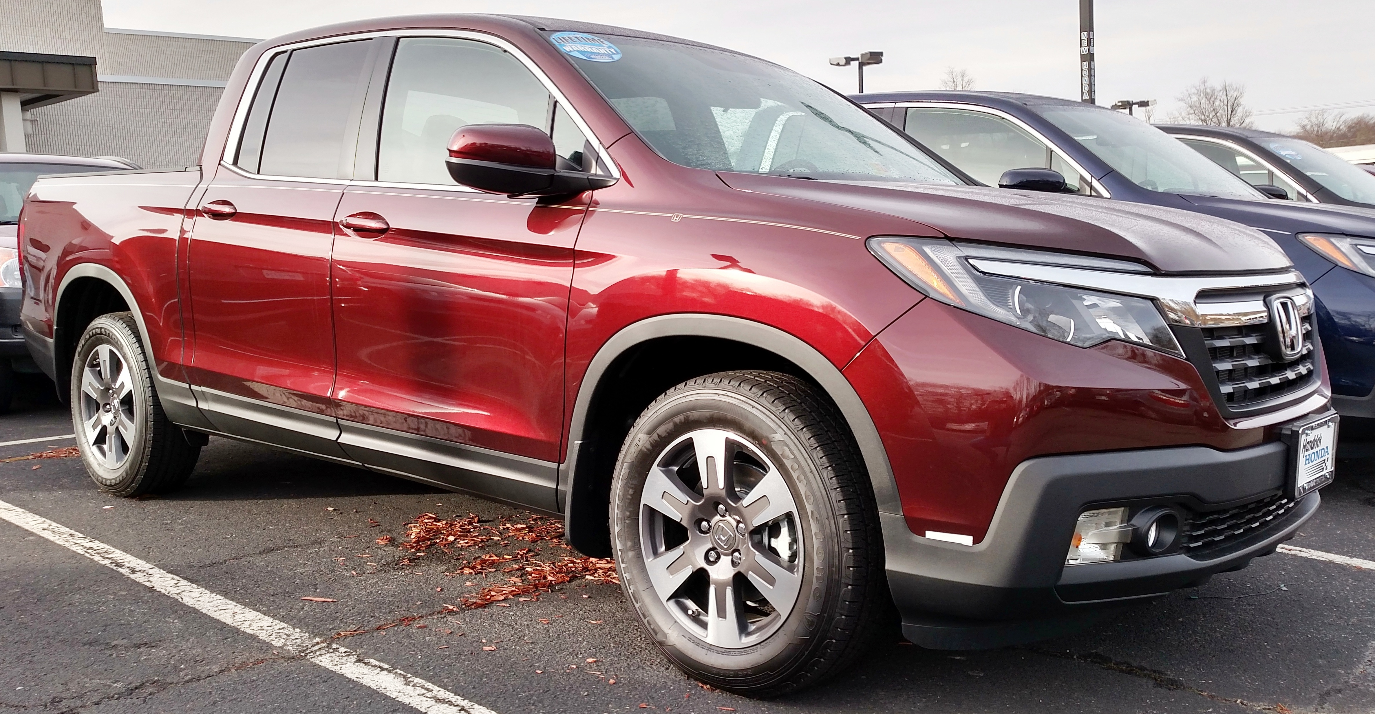 Picture of the 2017 Honda Ridgeline RTL Front-Wheel Drive (FWD)